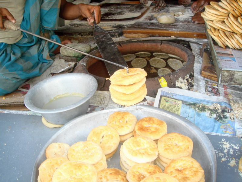 the picture has been originally taken and uploaded for